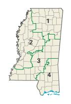 Image adapted from US fed gov't source Category:Congressional districts of Mississippi